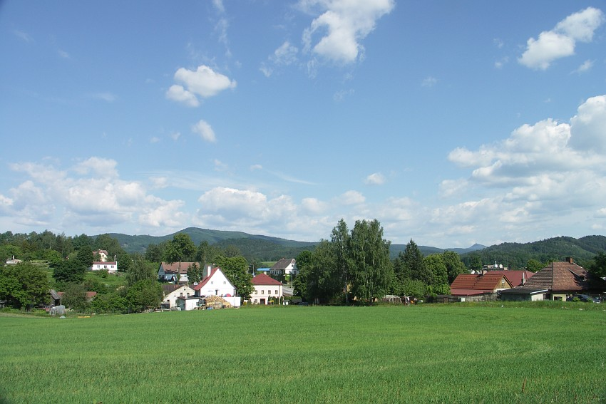 Rynoltice, Liberec District, Czech Republic